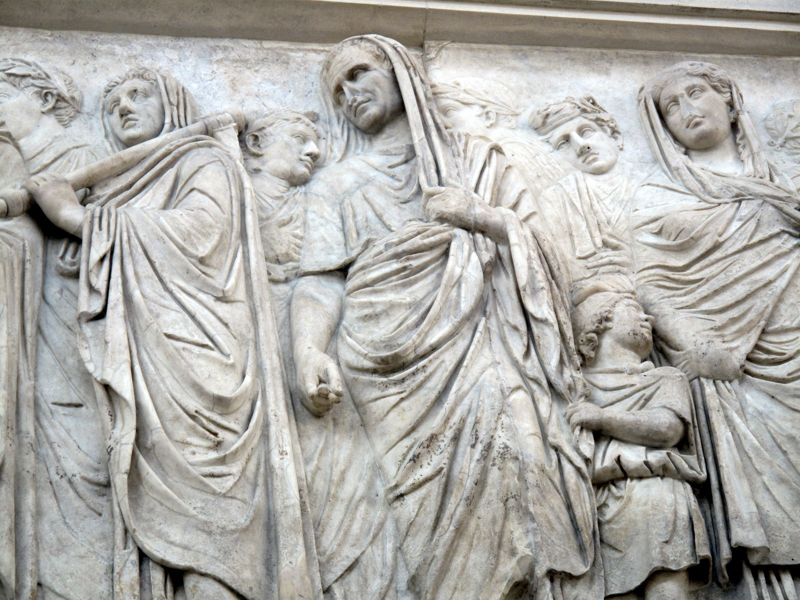 AWIB-ISAW: Procession on the Ara Pacis (I) This close-up shows Agrippa and Livia (?) on the southern procession panel of the Ara Pacis. by R Rumora (2012) copyright: 2012 R Rumora (used with permission) photographed place: Roma (Rome) Published by the Institute for the Study of the Ancient World as part of the Ancient World Image Bank (AWIB). Further information: .